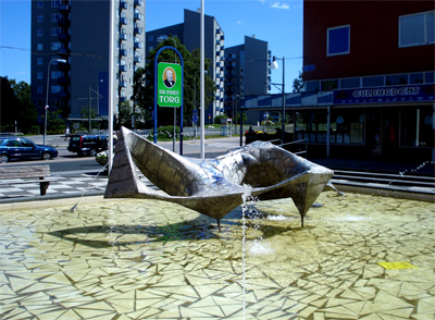 Fina fisken (Fine fish) at Doktor Fries Torg in Guldheden in Göteborg, Sweden